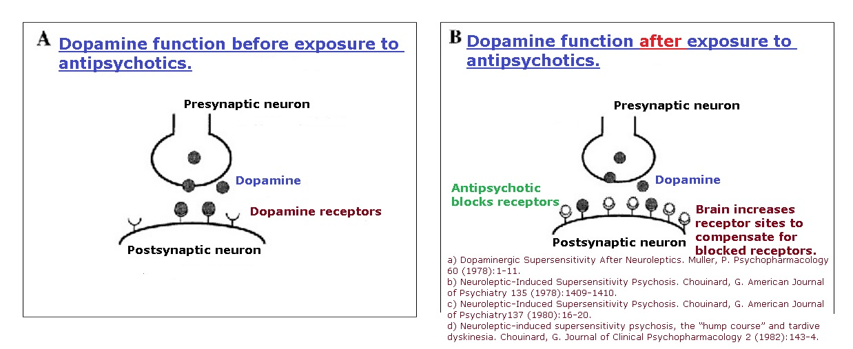 Robert Whitaker wrote a book called "Anatomy of an Epidemic" where he found scientific research that brains are altered after antipsychotics. This is my drawing of the brains dopamine function before and after antipsychotics that is described, along with the medical references.